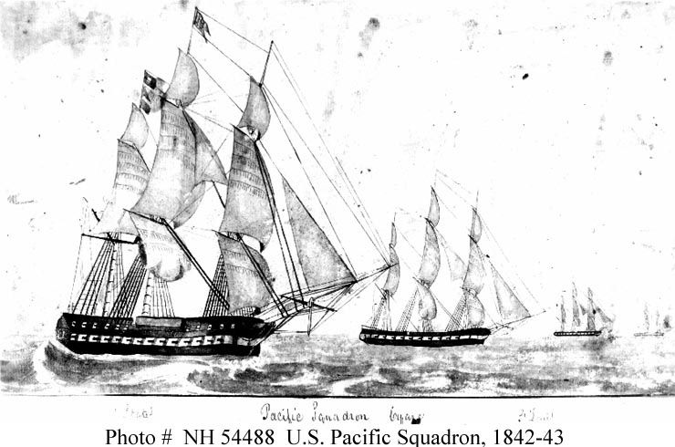 The United States Pacific Squadron as it was bfore the Mexican American War in the 1840s. Watercolor by Gunner William H. Meyers, of USS Cyane, showing the Squadron's ships sailing in line abreast, 1842-43. Ships are (from left to right): USS United States, USS Cyane, USS Saint Louis, USS Yorktown and USS Shark.